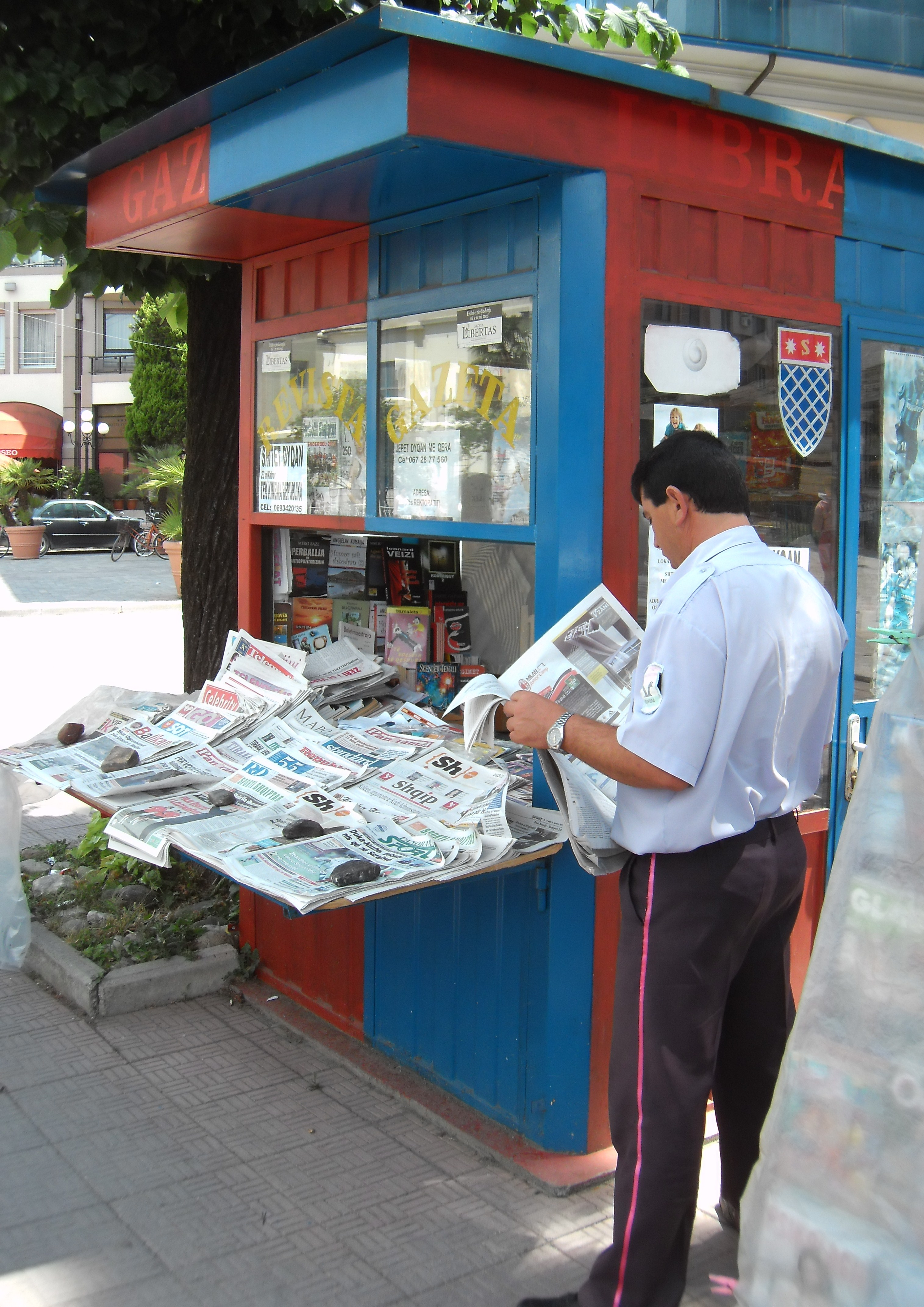 Newspaper kiosk in Shkodra, Albania